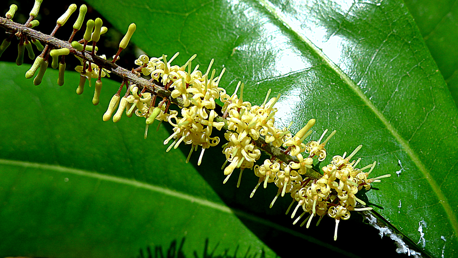 Panopsis rubescens (Pohl) Rusby